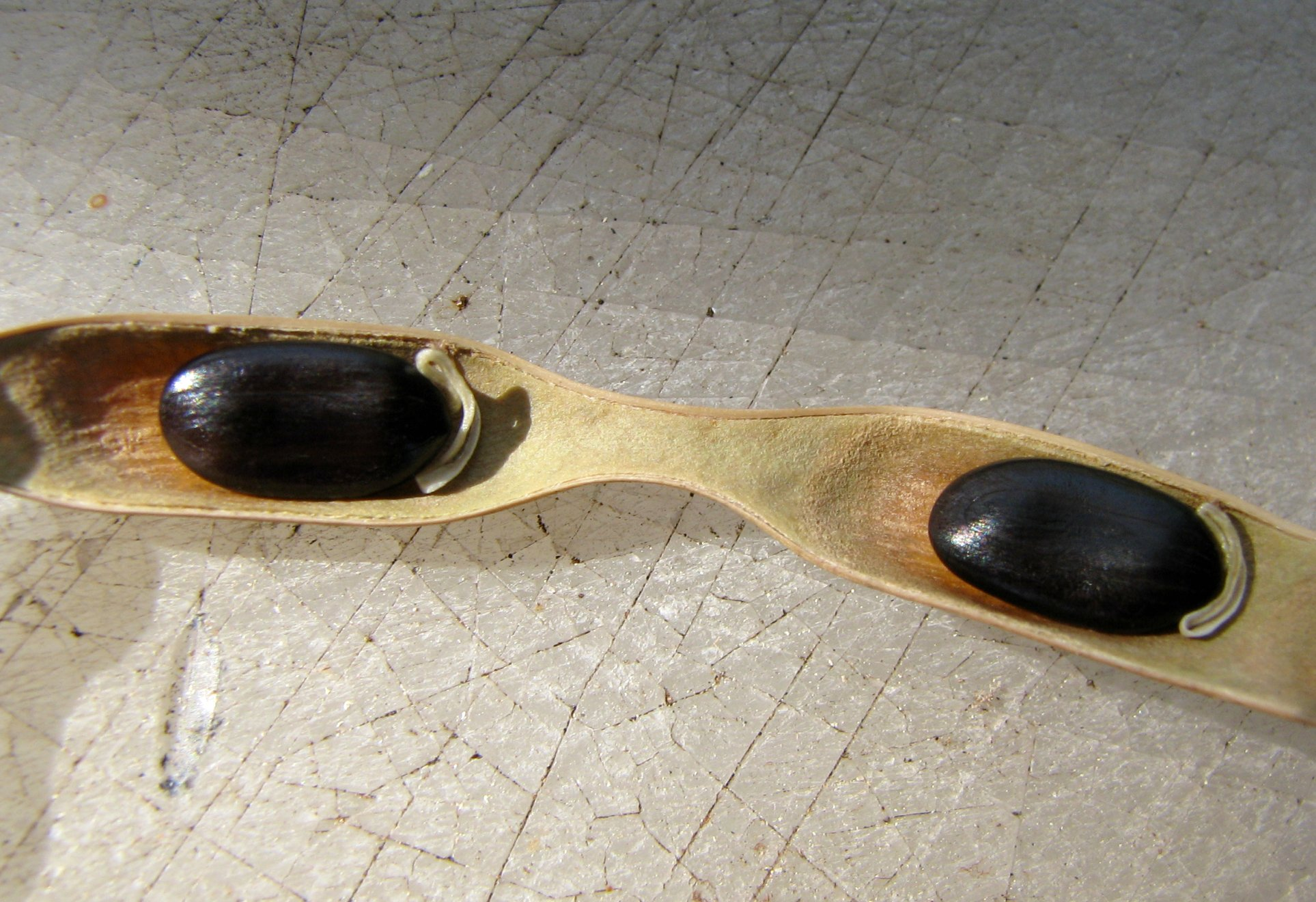 Koaiʻa, Koaiʻe, or Dwarf koa Fabaceae Endemic to the Hawaiian Islands Vulnerable Oʻahu (Cultivated) NPH00014